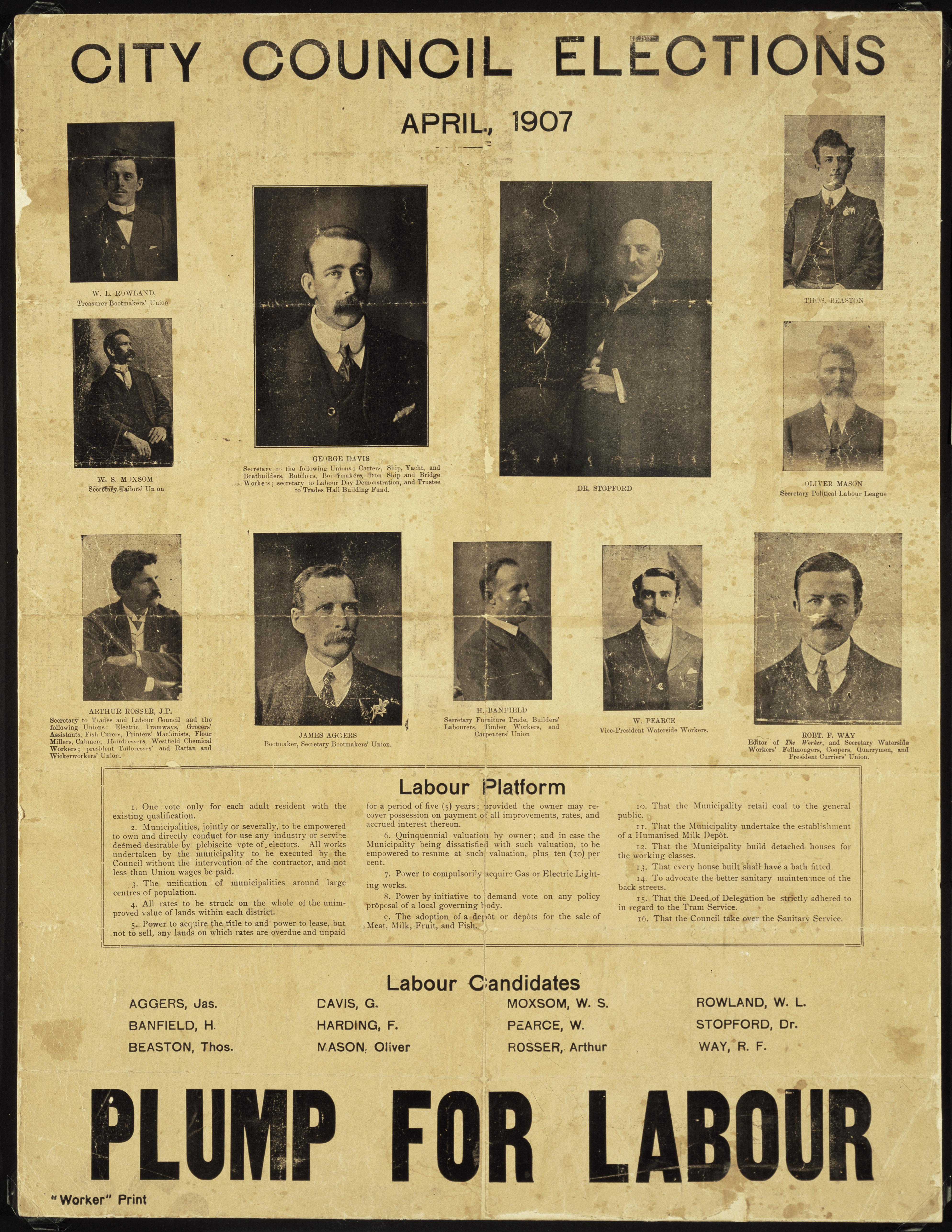 Shows portraits of eleven Labour candidates, and gives an outline of the labour platform. The candidates are: W L Rowland, W S Moxsom, Arthur Rosser, George Davis, James Aggers, Dr Stopford, H Banfield, W Pearce, Thos Beaston, Oliver Mason, and Robt F Way. Inscriptions: Inscribed - Recto - bottom left: "Worker" Print.. Quantity: 1 b&w photo-mechanical print(s). Physical Description: Photolithograph, mounted on board, 575 x 440 mm. New Zealand Worker (Newspaper. 1924-1935). City Council elections, April 1907. Plump for Labour. 1907.. Ref: Eph-D-LOCAL-Auckland-1907-01. Alexander Turnbull Library, Wellington, New Zealand.